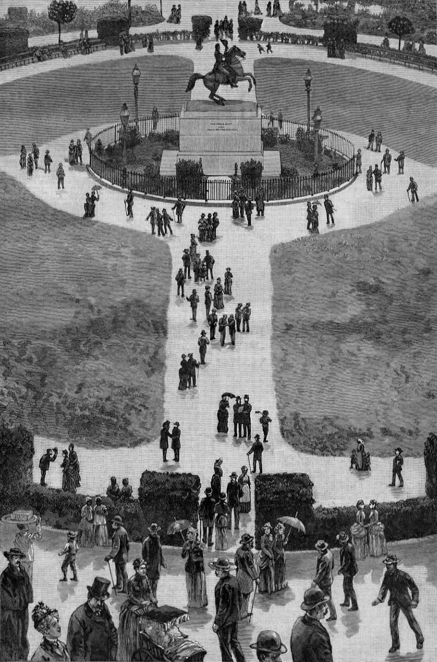 Jackson Square, New Orleans, a wood engraving drawn by W. P. Snyder and published in Harper's Weekly, January 1885.